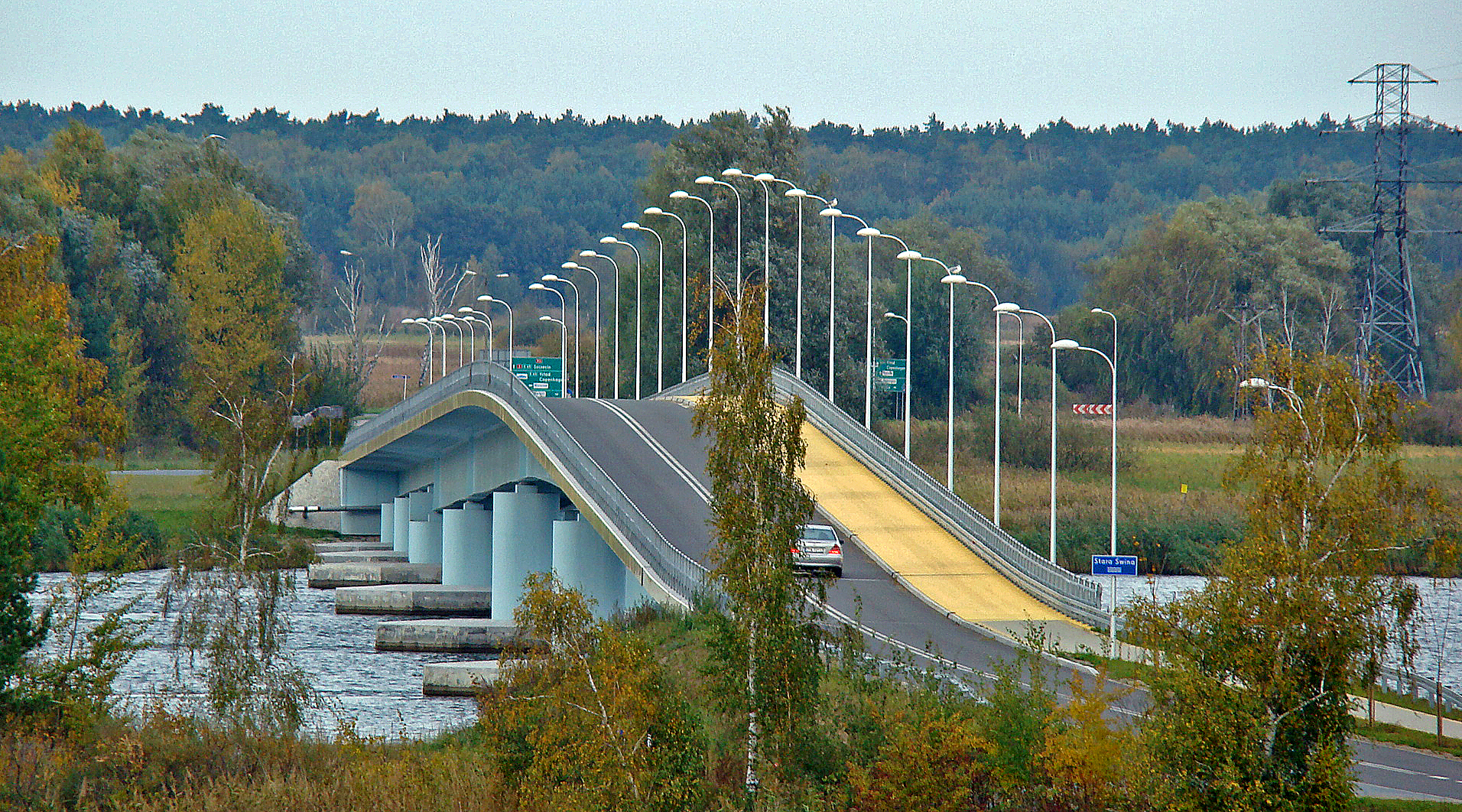 Piastowski Bridge in Swinoujscie, Poland